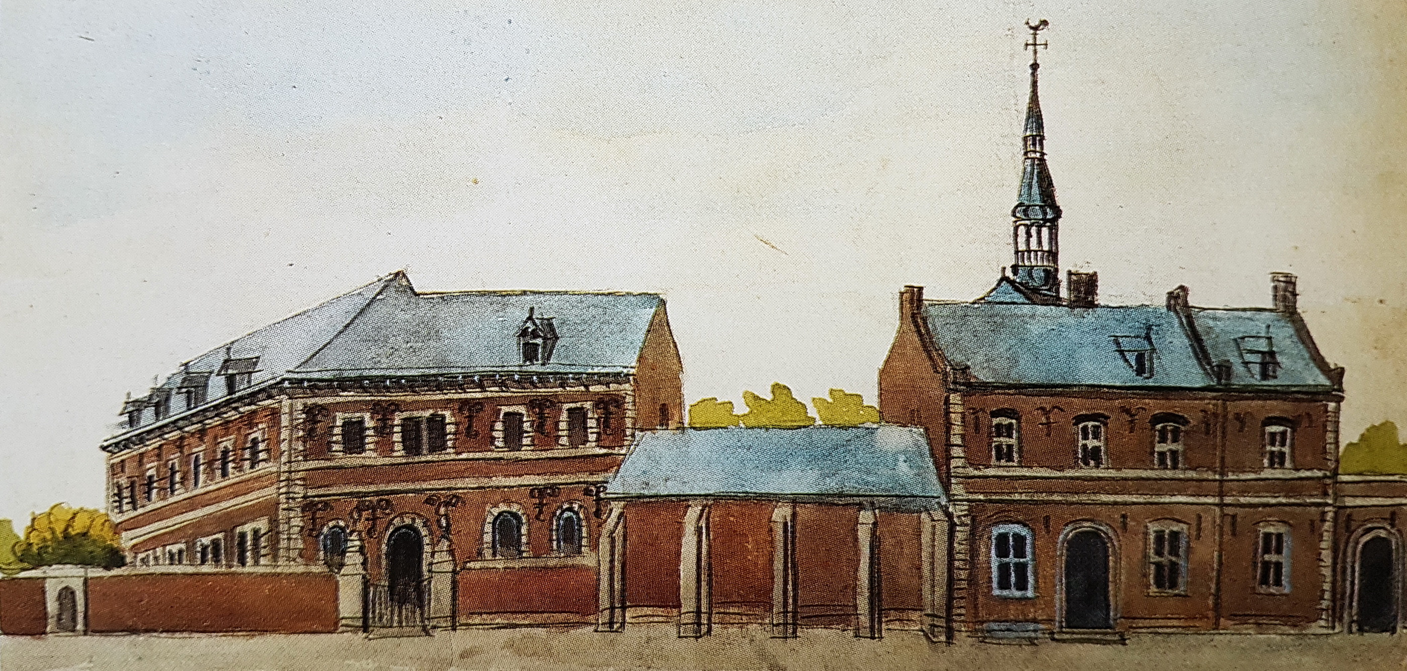 Historical reconstruction of the Annunciates Nunnery in Wyck-Maastricht, the Netherlands. The drawing is by Philippe van Gulpen (mid-19th c) but shows the monastery as Van Gulpen imagined it to have looked like before its demolition in the early 19th-c.